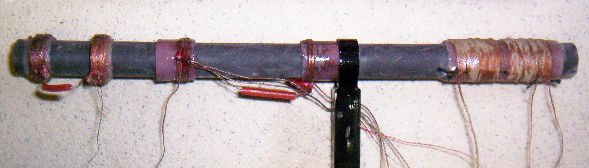 Ferrite rod loopstick antenna from a portable receiver with windings for longwave, medium wave and shortwave reception